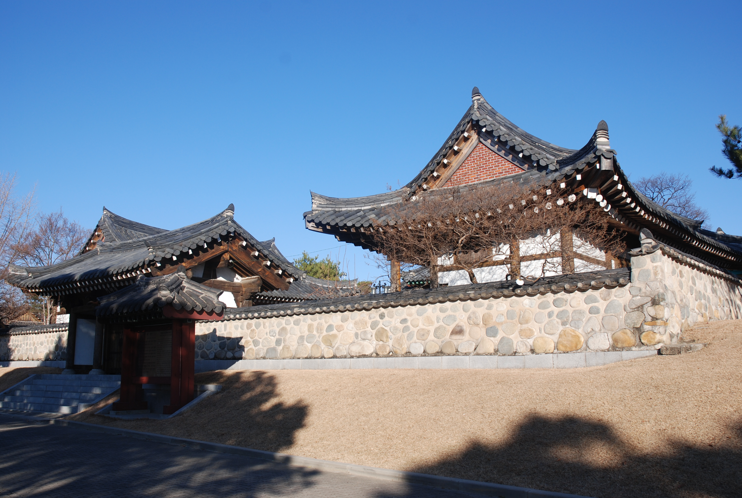 Jungjeolsa shrine